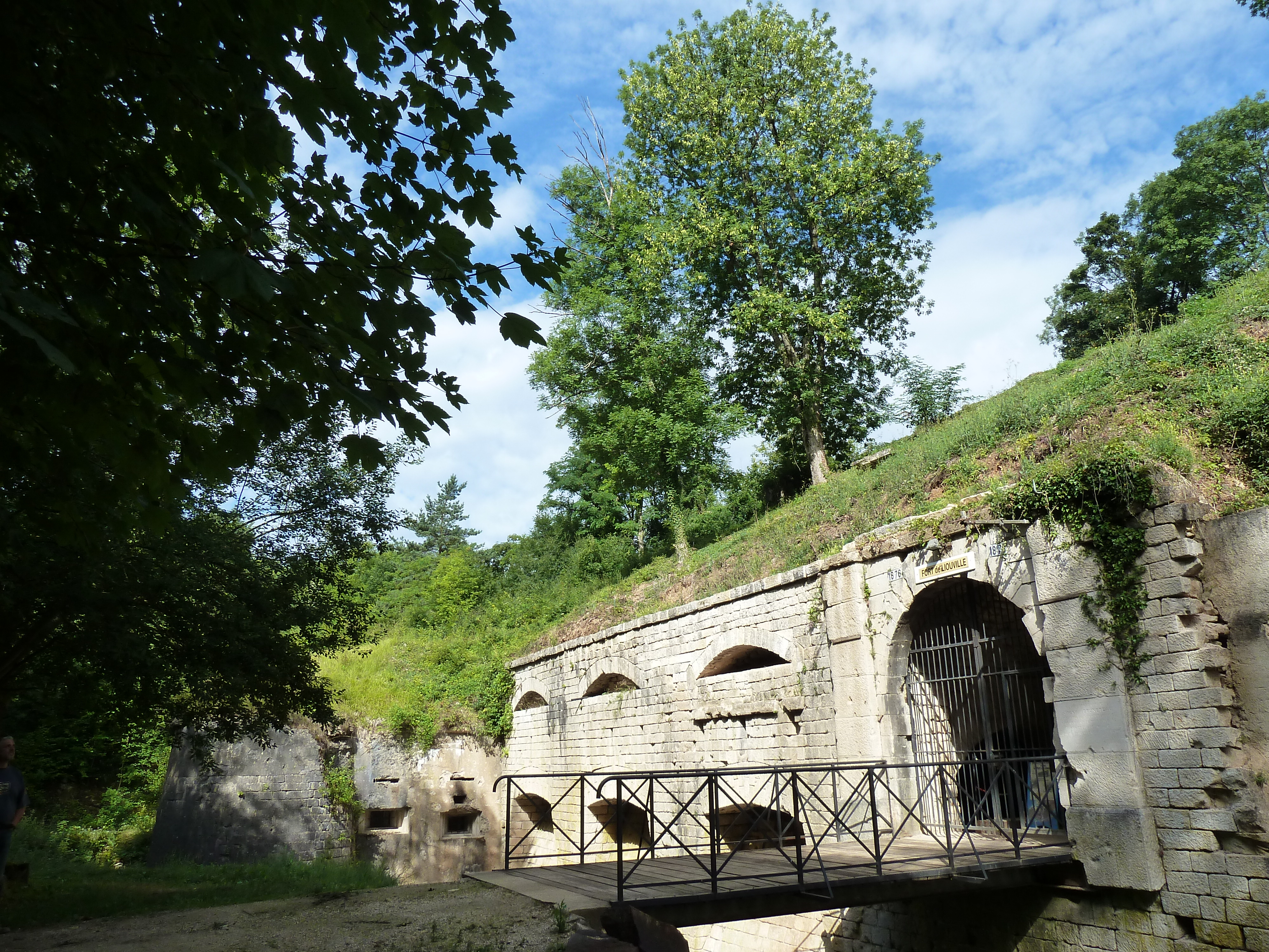 Entry of the fortification of Liouville